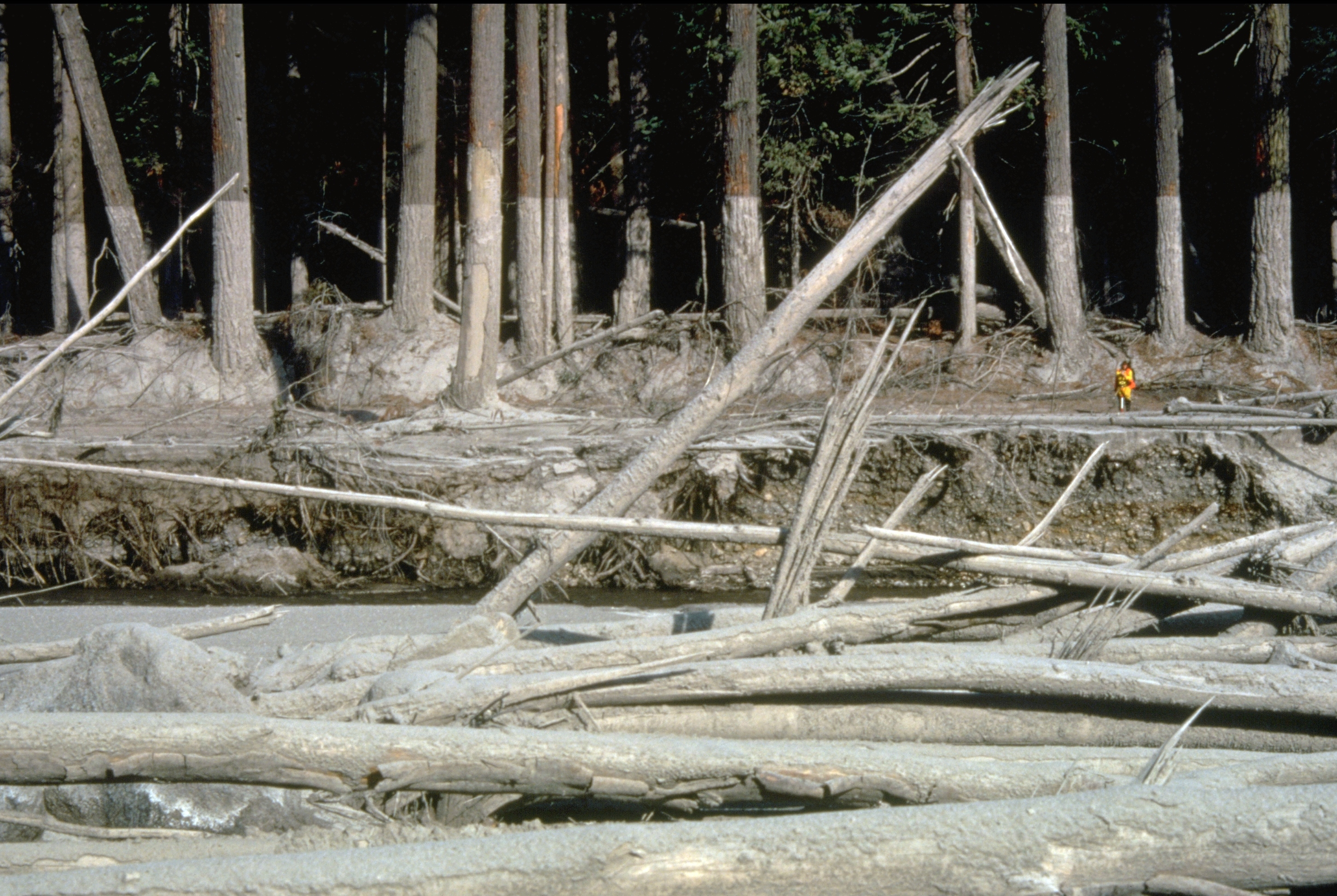 (copied description from USGS site): Nearly 135 miles (220 kilometers) of river channels surrounding the volcano [Mt. St. Helens] were affected by the lahars of May 18, 1980. A mudline left behind on trees shows depths reached by the mud. A scientist (middle right) gives scale. This view is along the Muddy River, southeast of Mount St. Helens.